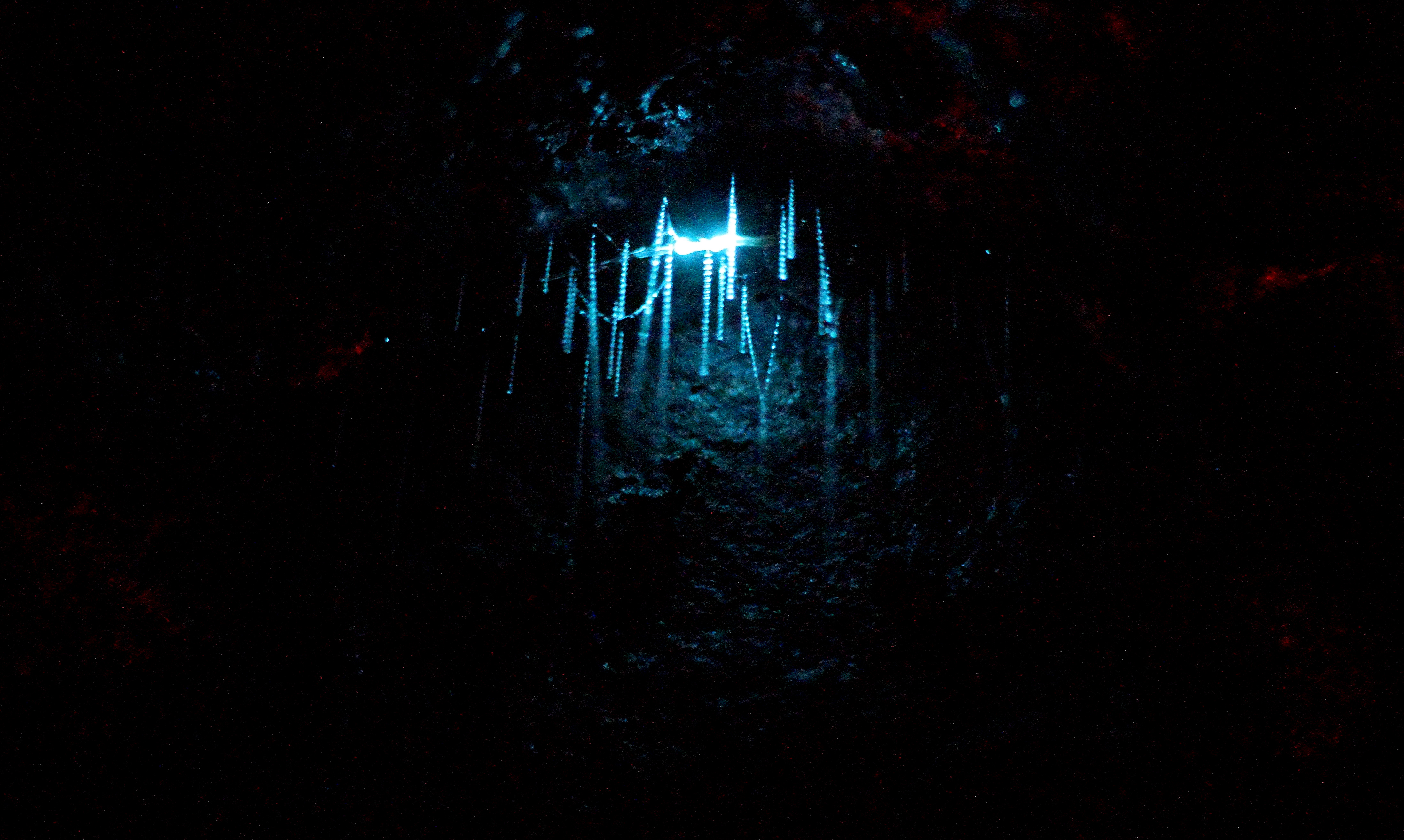 Glowworm (Arachnocampa luminosa) in a cave in New Zealand.